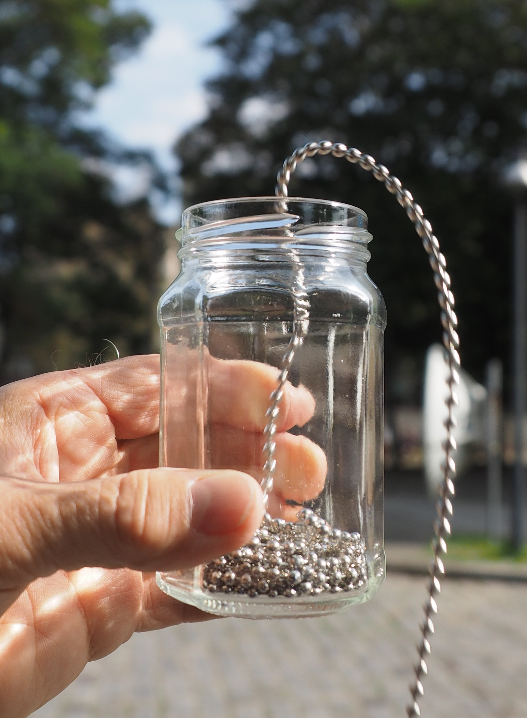 Self-siphoning chain of beads. The jar is about 1.50 m from the ground. The chain of beads raises about 2 cm above the edge of the jar. (siphon demonstrated by UvM)